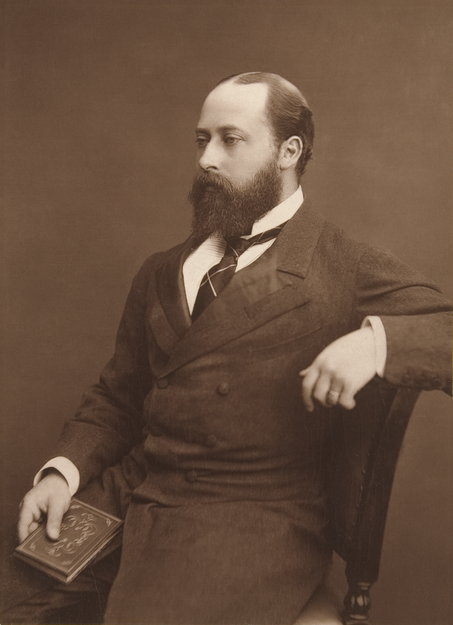 His Royal Highness the Prince of Wales (Edward VII)